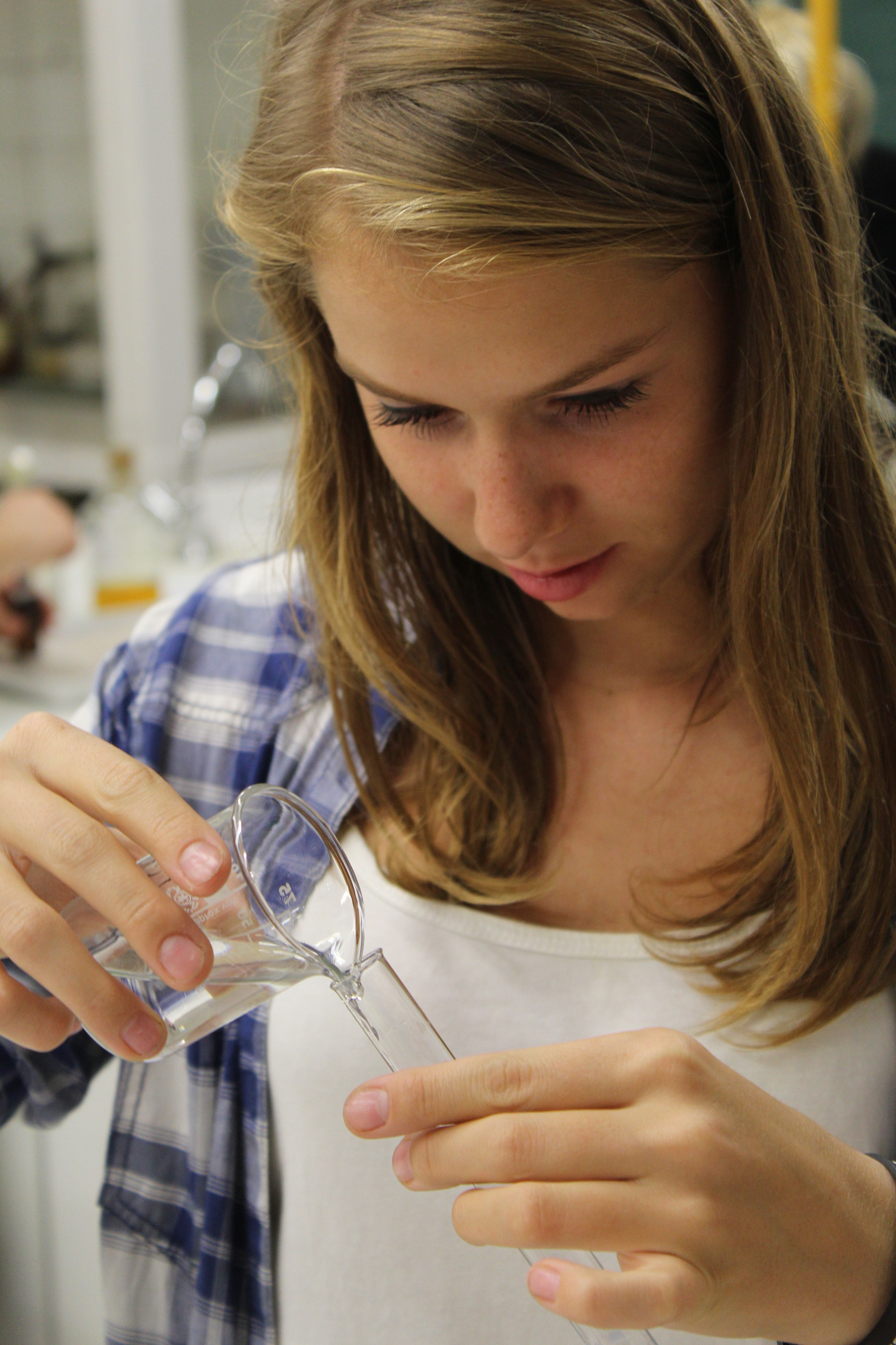 A person (Berta Luca) is in the University of Szeged and she made an experiment.